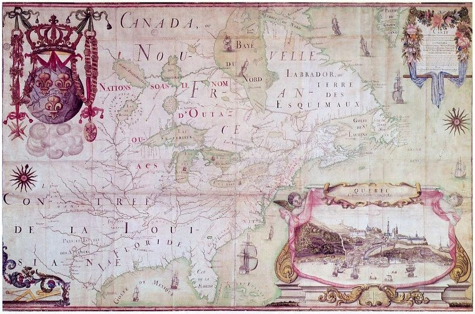 Eastern North America by J-B. Franquelin, 1688. Original size: 58¼ x 37¼ inch